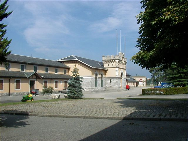 Building of Shooting Range St-Georges